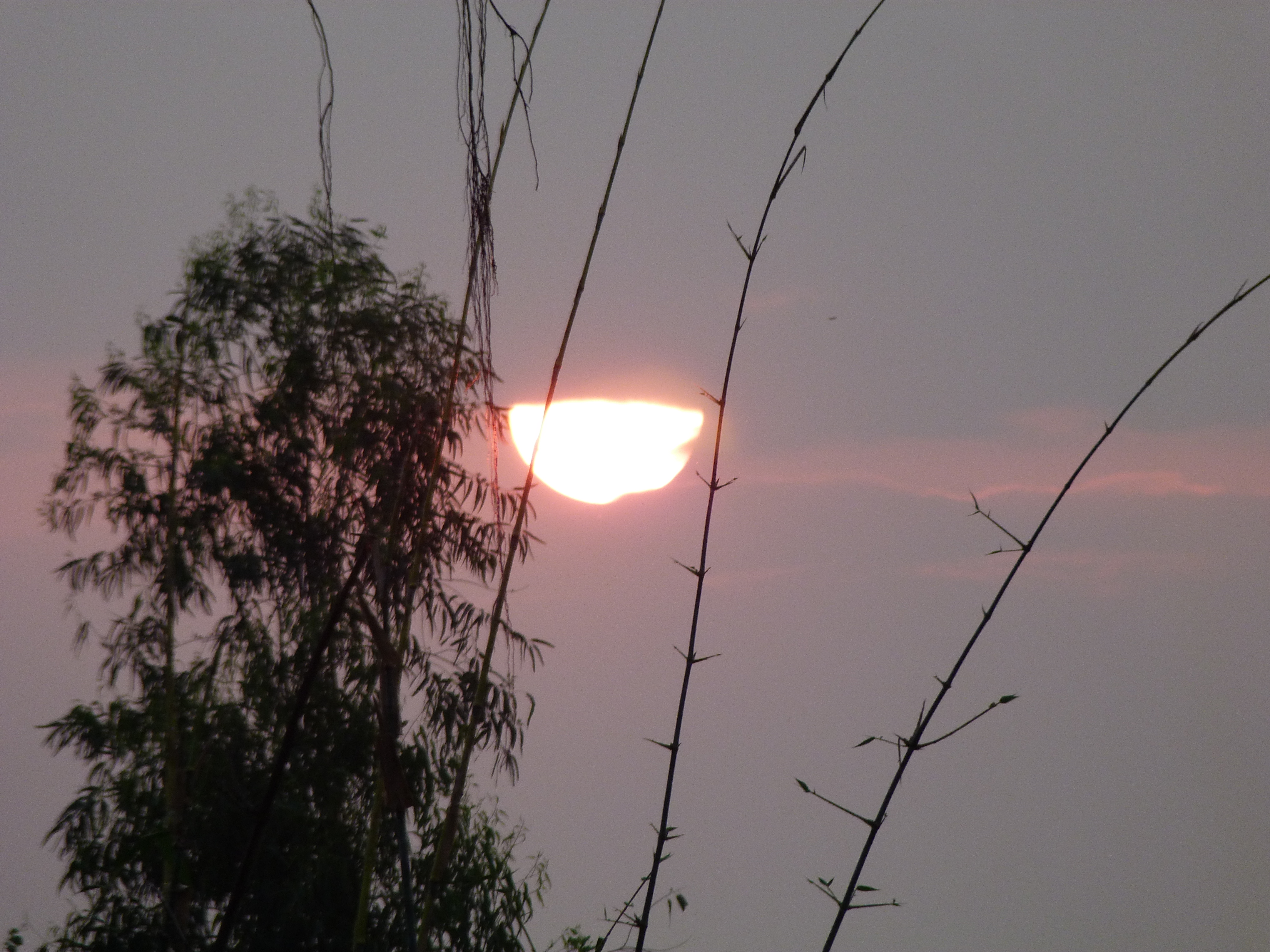 Sunset in Purandarpur,near Kondaipu,Birbhum...Photographer--Arunava Sanyal